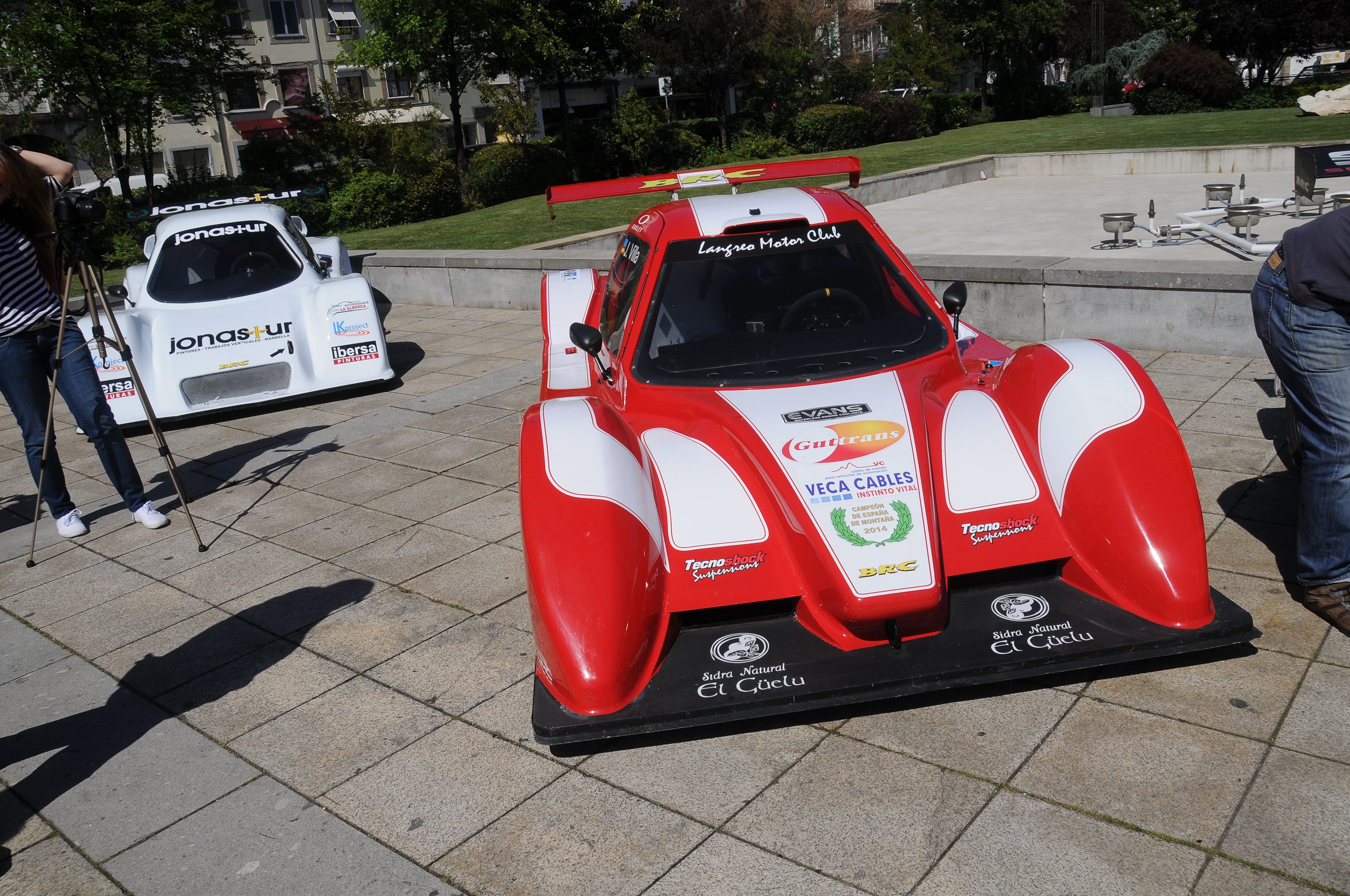 Falperra International Hill Climb 2015, in Braga, Portugal.